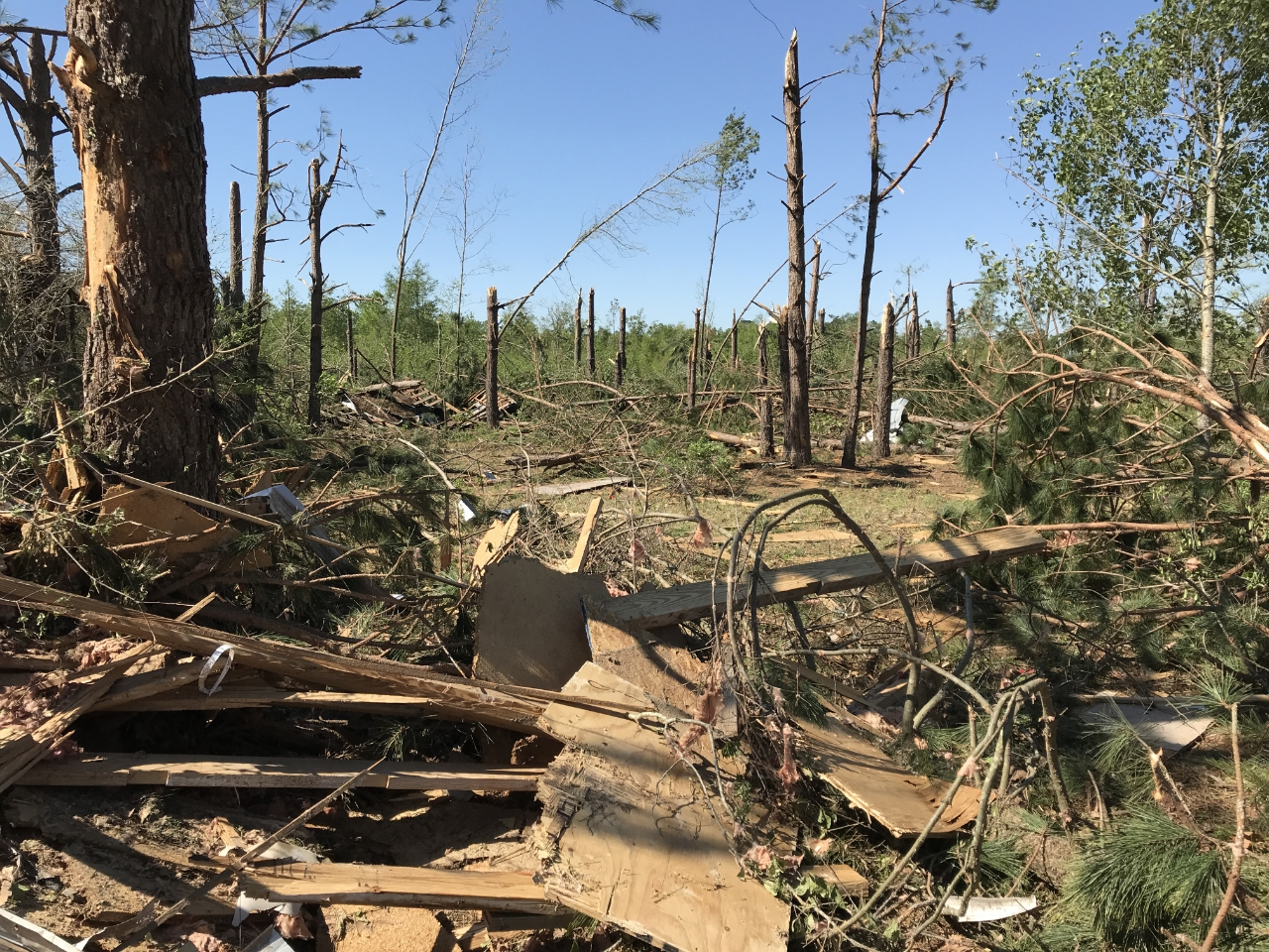 A grove of trees severely damaged by an EF3 tornado near Livingston, South Carolina.